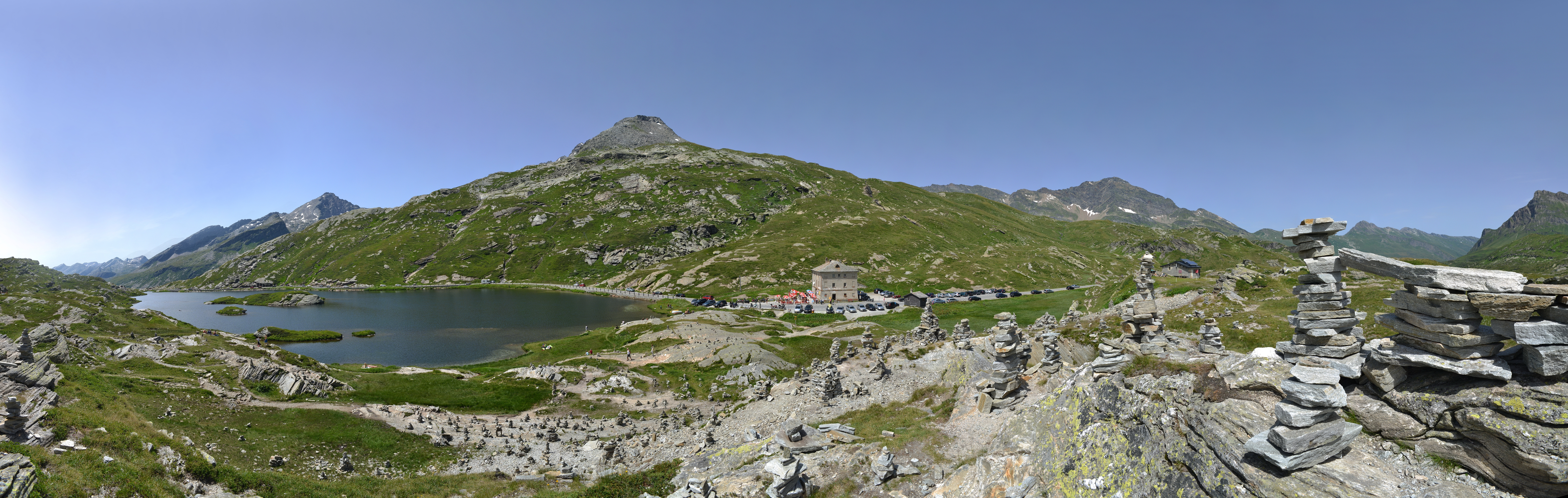 The San Bernardino Pass is a mountain pass in the Swiss canton of Graubünden with a summit altitude of 2,065 m. It connects the valleys of the Rhine forest on the northern and Misox on the southern side of the main road 13 At the summit, the European watershed and extend the language border between German and Italian. On the eastern shore of Laghetto Moesola the pass road runs. NOTE: This image is a panorama consisting of multiple frames that were merged or stitched in software. As a result, this image necessarily underwent some form of digital manipulation. These manipulations may include blending, blurring, cloning, and colour and perspective adjustments. As a result of these adjustments, the image content may be slightly different from reality at the points where multiple images were combined. This manipulation is often required due to lens, perspective, and parallax distortions.